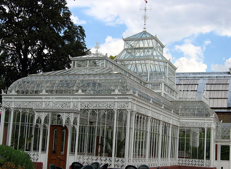 Victorian conservatory at the Horniman Museum. Taken by C Ford, 6th July 2004.